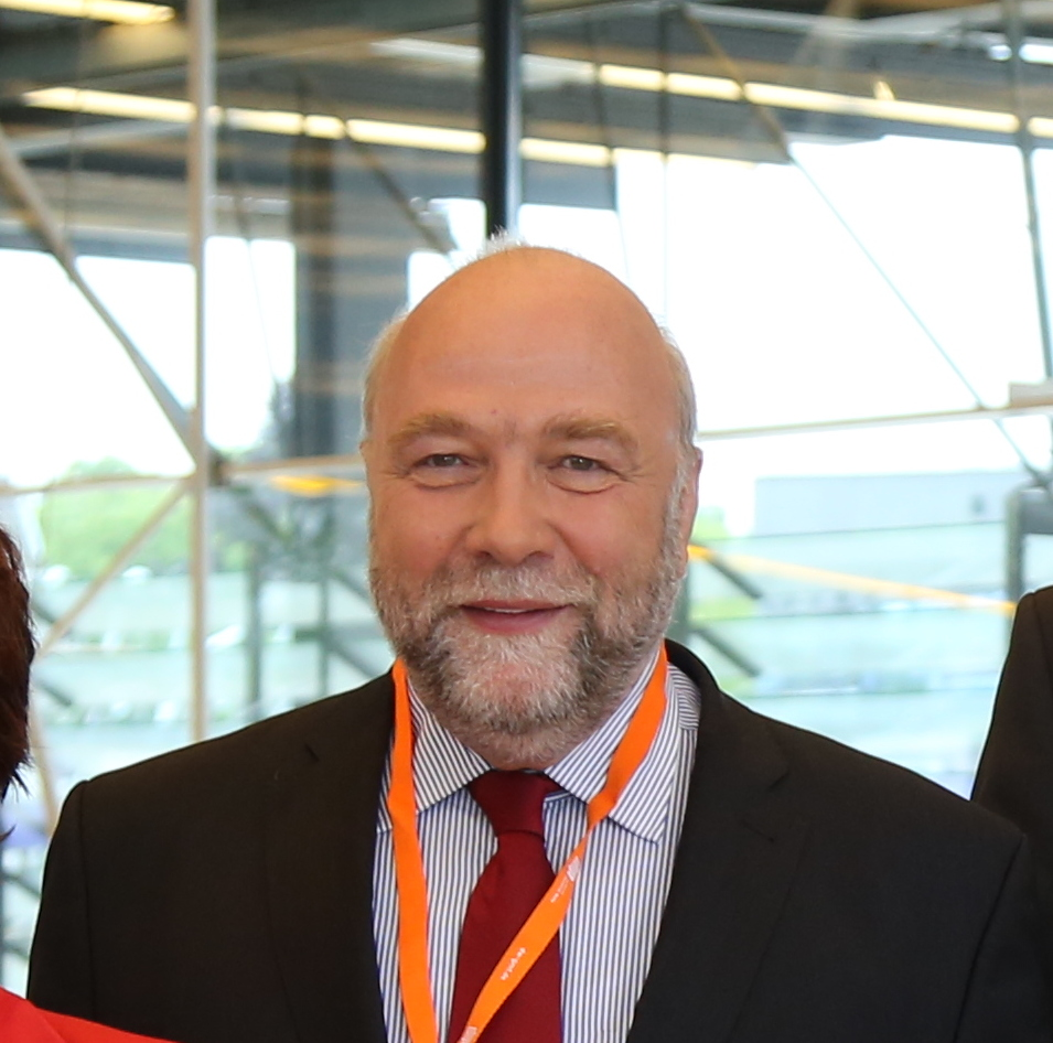 f.l.t.r.: Lundeg Purevsuren (Minister for Foreign Affairs of Mongolia), Jan F. Kallmorgen (Partner, Global Practice, Interel and Co-Founder Atlantic Initiative, Germany), Dr. Amrita Cheema (Anchor and Journalist, DW, Germany), Günter Nooke (Commissioner for Africa of the Federal Ministry for Economic Cooperation and Development (BMZ), Germany), Peter Limbourg (Director General, Deutsche Welle, Germany) and Prof. Dr. Dr. Franz-Josef Radermacher (Director, Research Institute for Applied Knowledge Processing and Member of the Club of Rome, Germany) © DW/M. Magunia